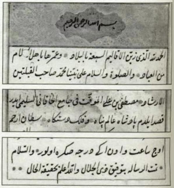 Excerpt from I‘lam al-‘Ibād fī A‘lām al-Bilād (1525) by the Istanbul astronomer Mustafa ibn Ali al-Muwaqqit